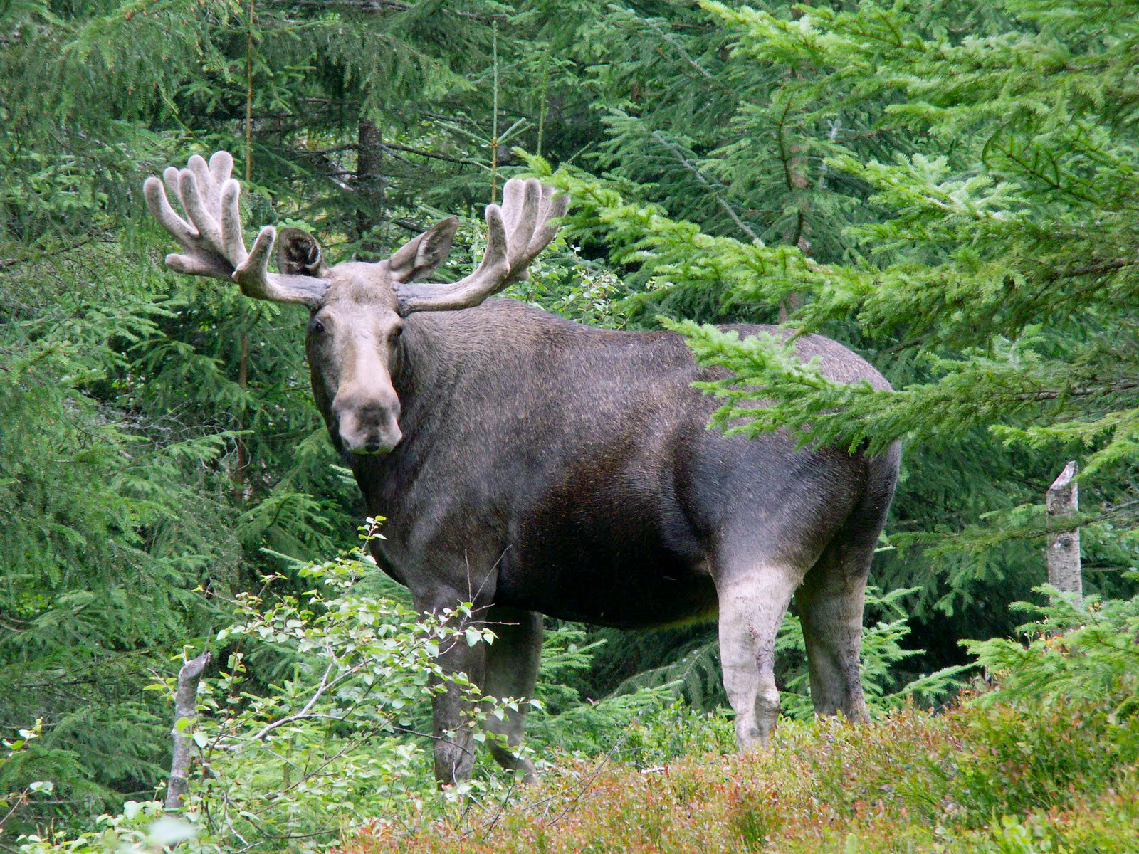 An elk in the forest of Telemark, Norway